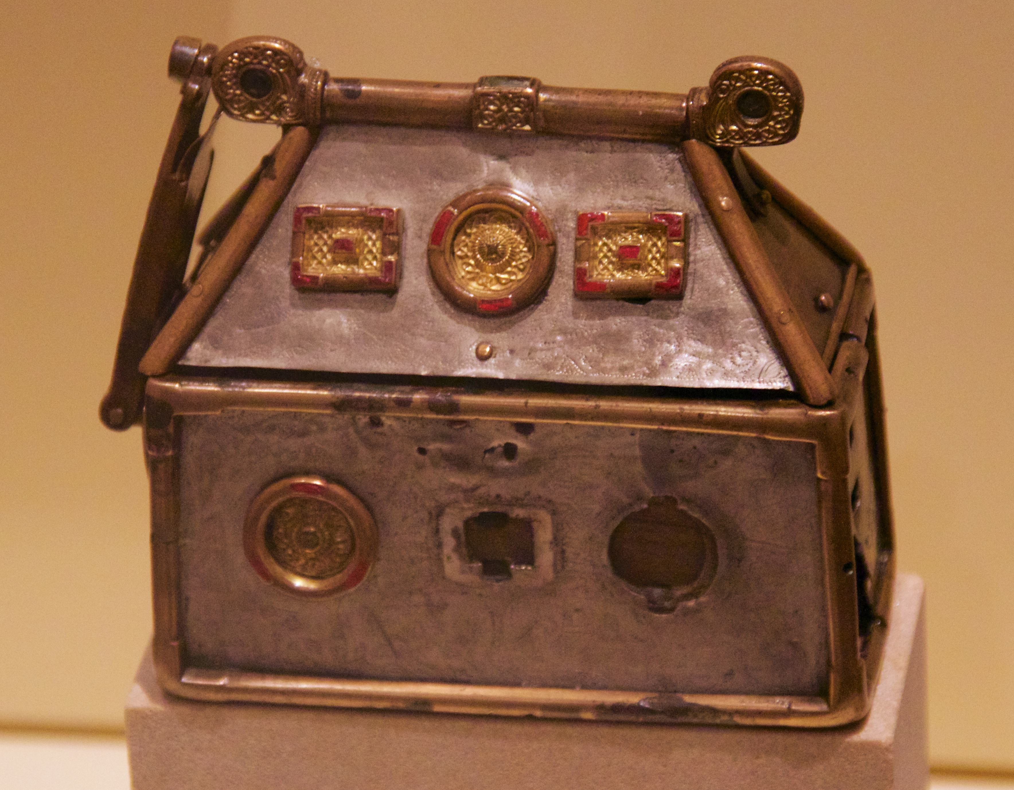 The Monymusk Reliquary, made around 750. At the National Museum of Scotland, Edinburgh.